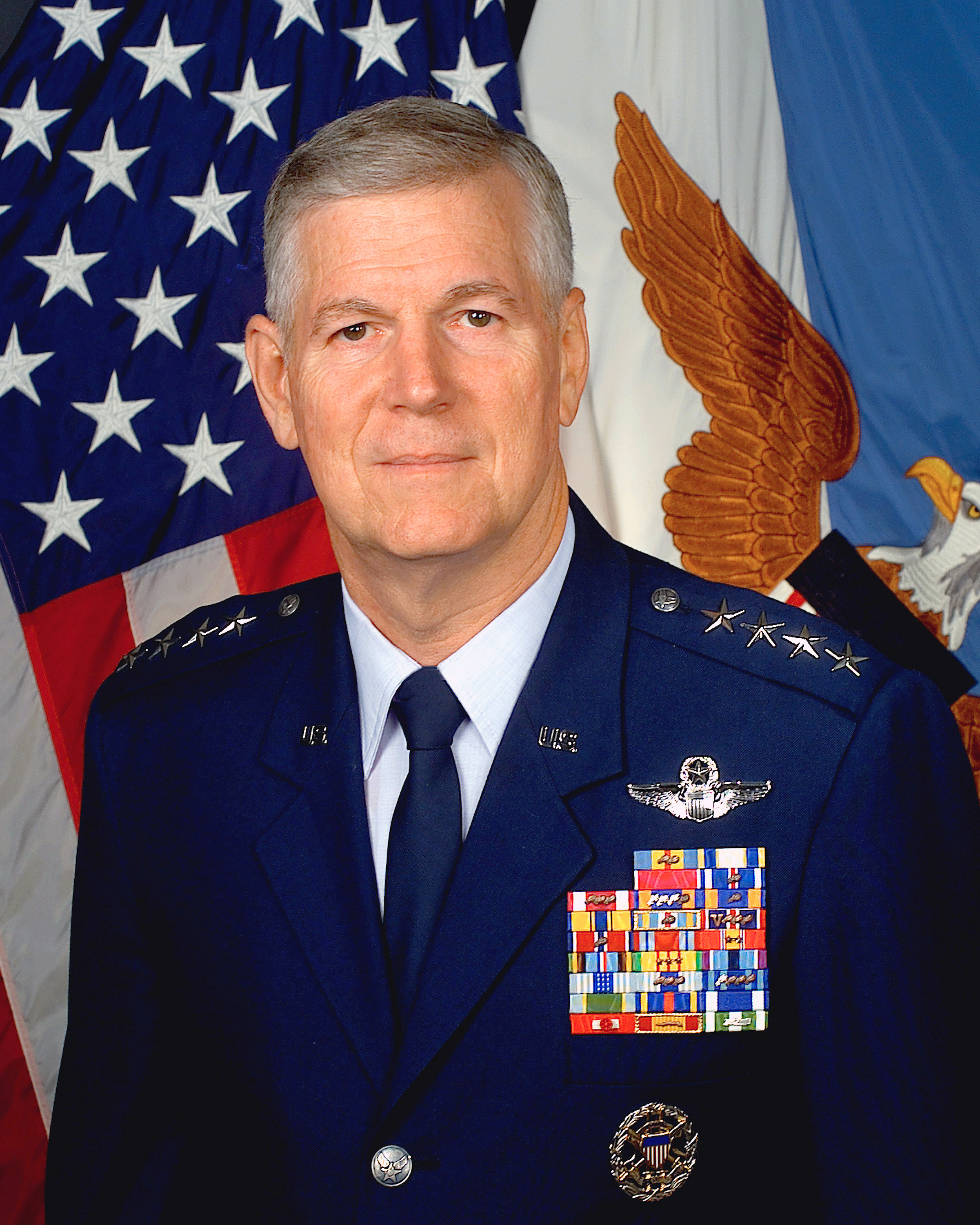 Richard Bowman Myers, Chairman of the Joint Chiefs of Staff, in September 2002.